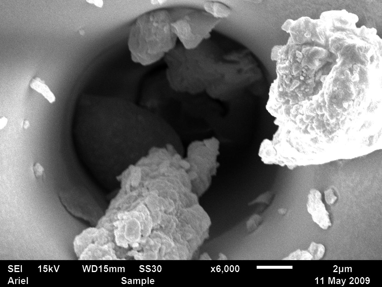 Scanning Electron Microscope image (x6000) of a dirty photonic fiber